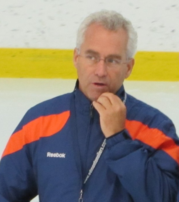 Head coach Tom Renney and associate coach Ralph Krueger